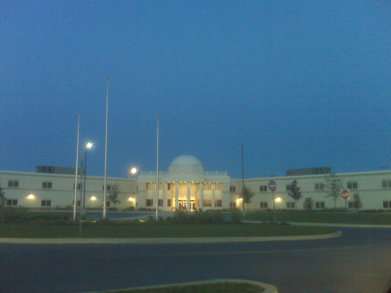 Washington High School in the early morning.